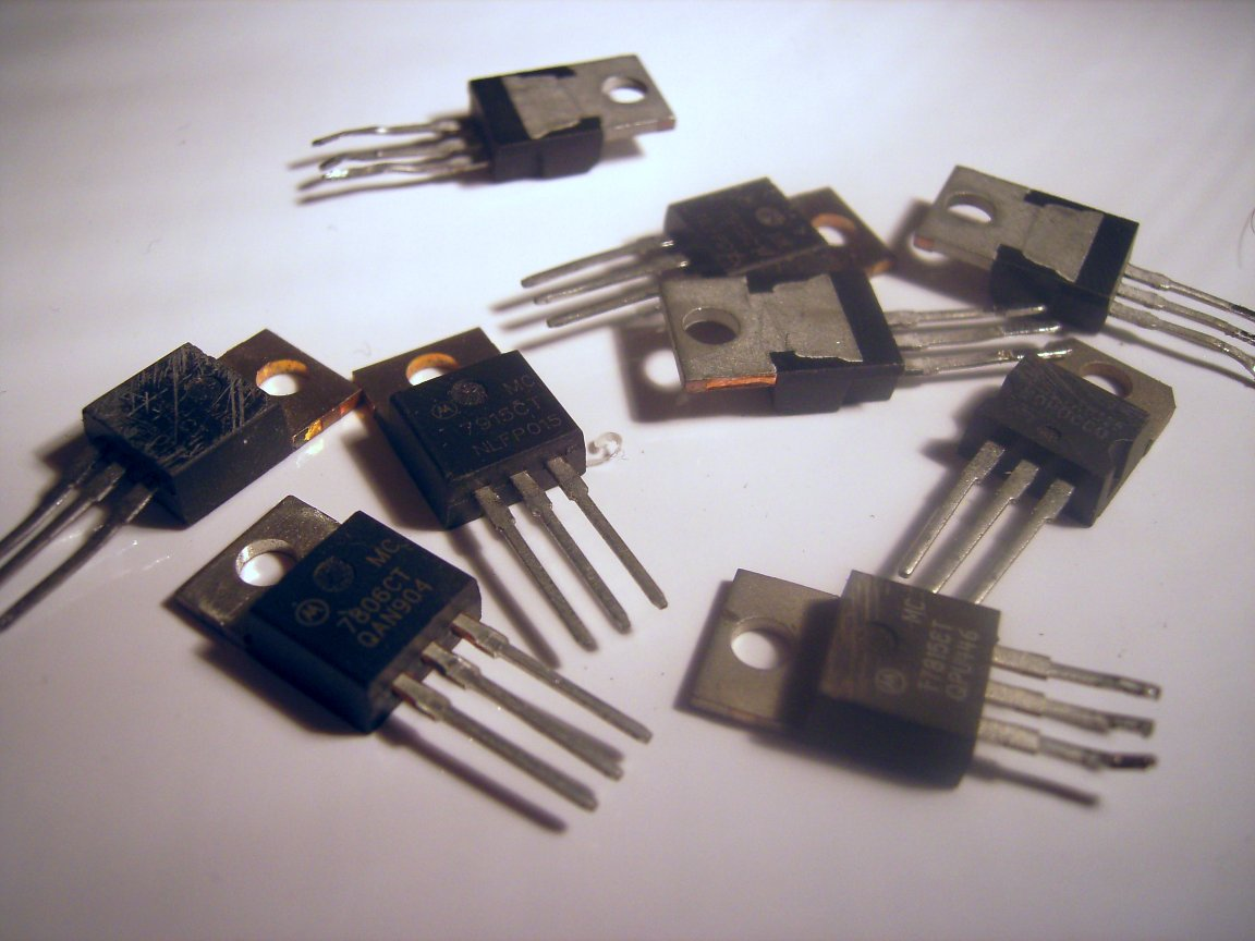 TO-220 packeged voltage regulator ICs